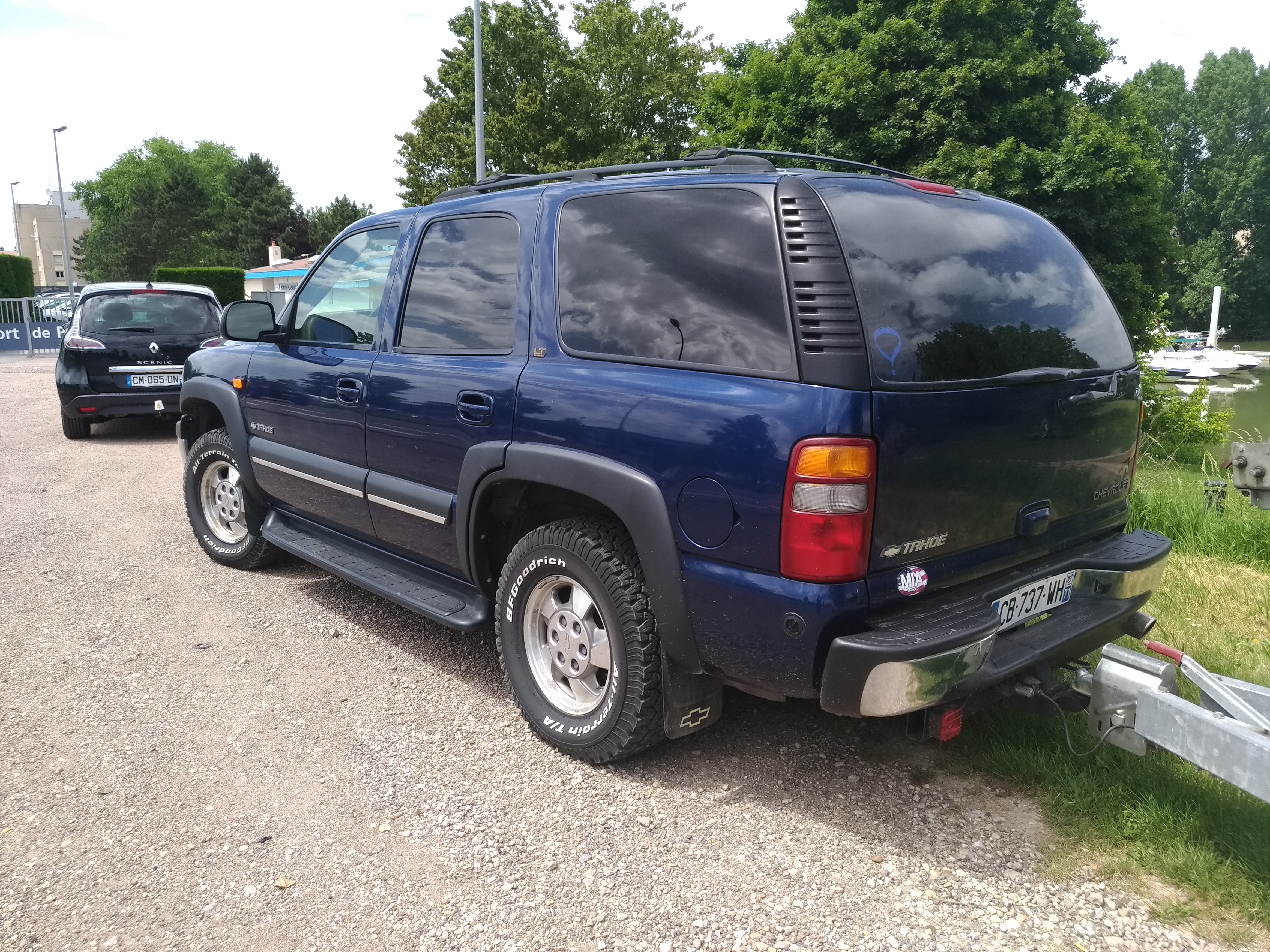 2003 Chevrolet Tahoe (V8 5.3 273 hp) at Chalon sur Saone